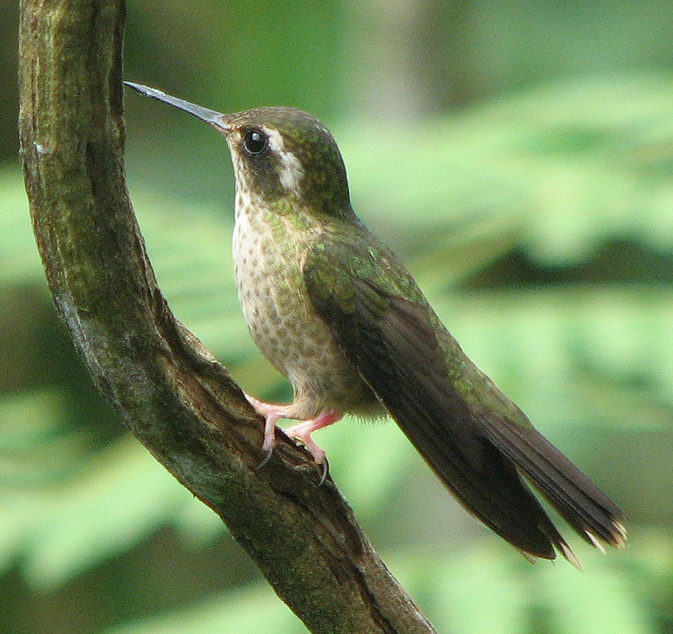 Profile of a Speckled Hummingbird